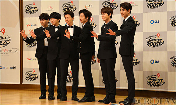 Super Junior M's Guest House press conference.